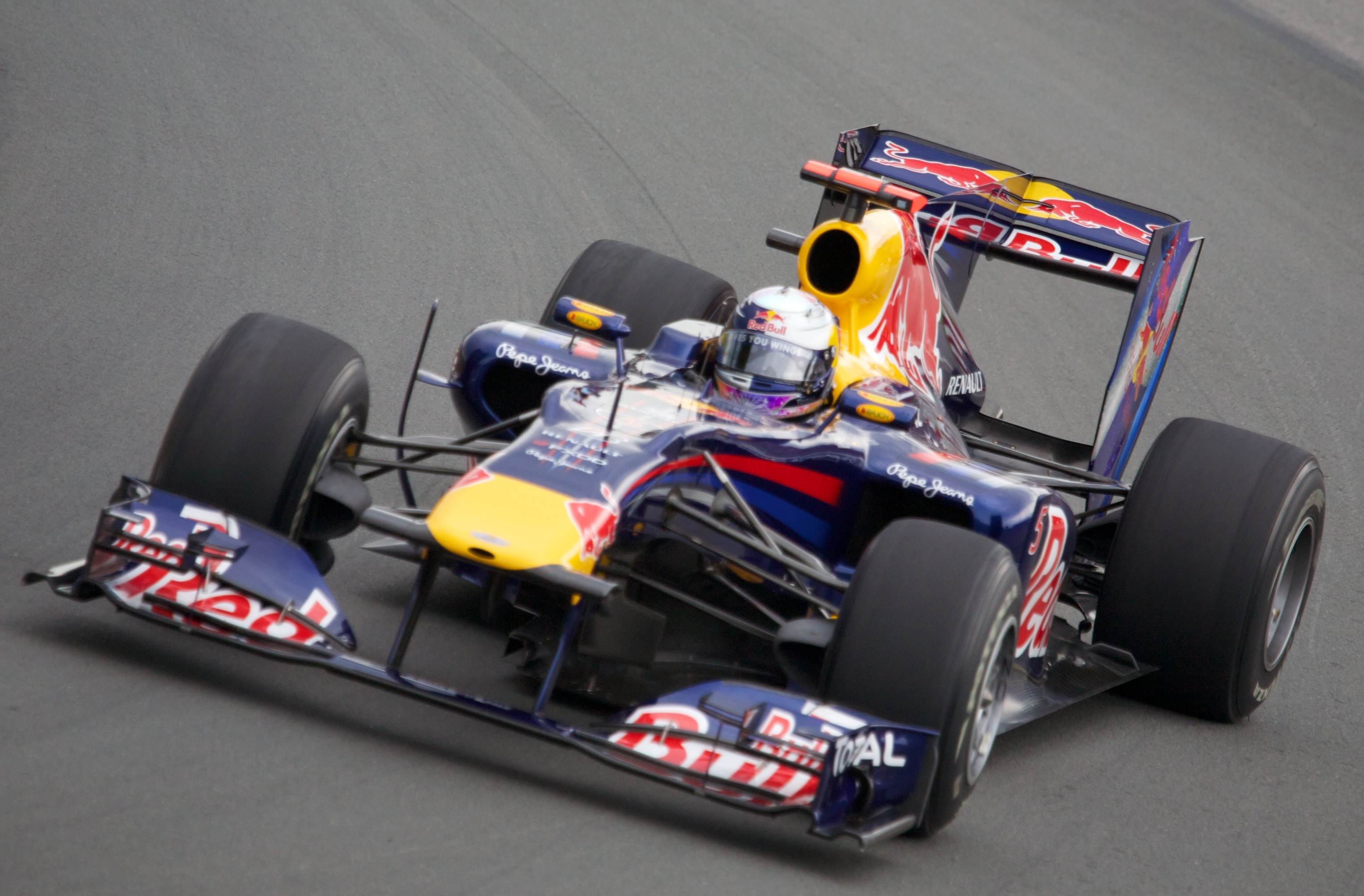 Vettel with some power oversteer coming out of turn 2